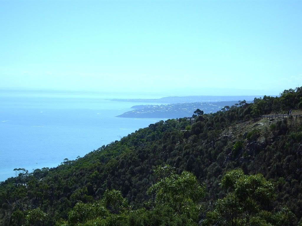 Picture overlooking Rosebud, Victoria, taken from Seawinds National Park (near Arthur's Seat)